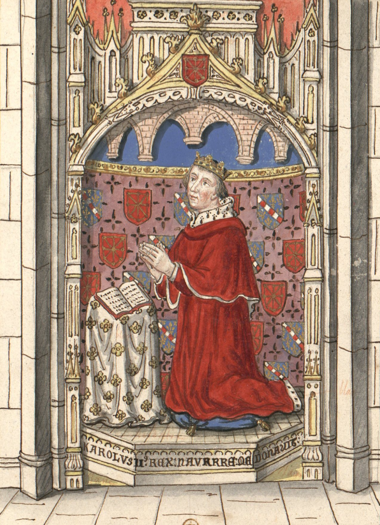 Charles II of Navarre.